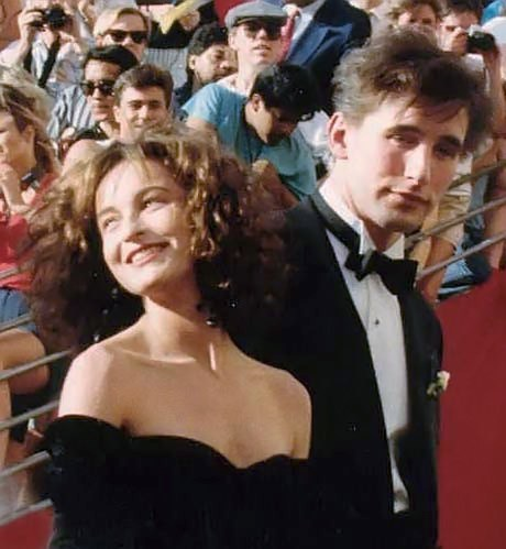 Photo taken at 60th Academy Awards 4/11/88 - Permission granted to copy, publish or post but please credit "photo by Alan Light" if you can